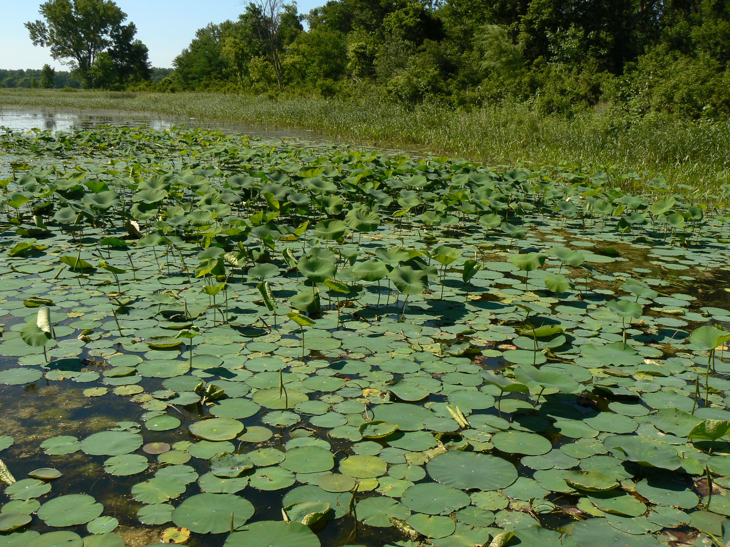 Lotus pads on small lake at DeSoto National Wildlife Refuge